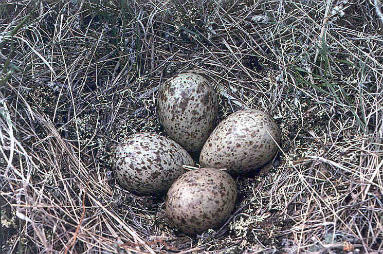 Long-billed curlew nest. Credit: USFWS